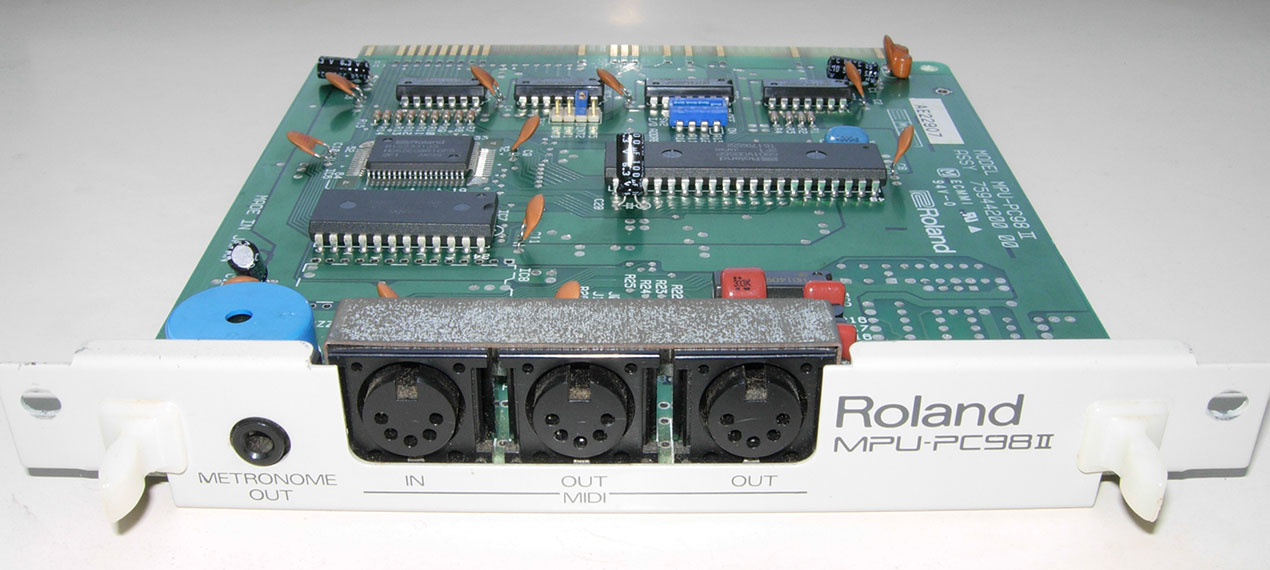 Roland MPU-PC98II, a MIDI interface card for PC-9801.